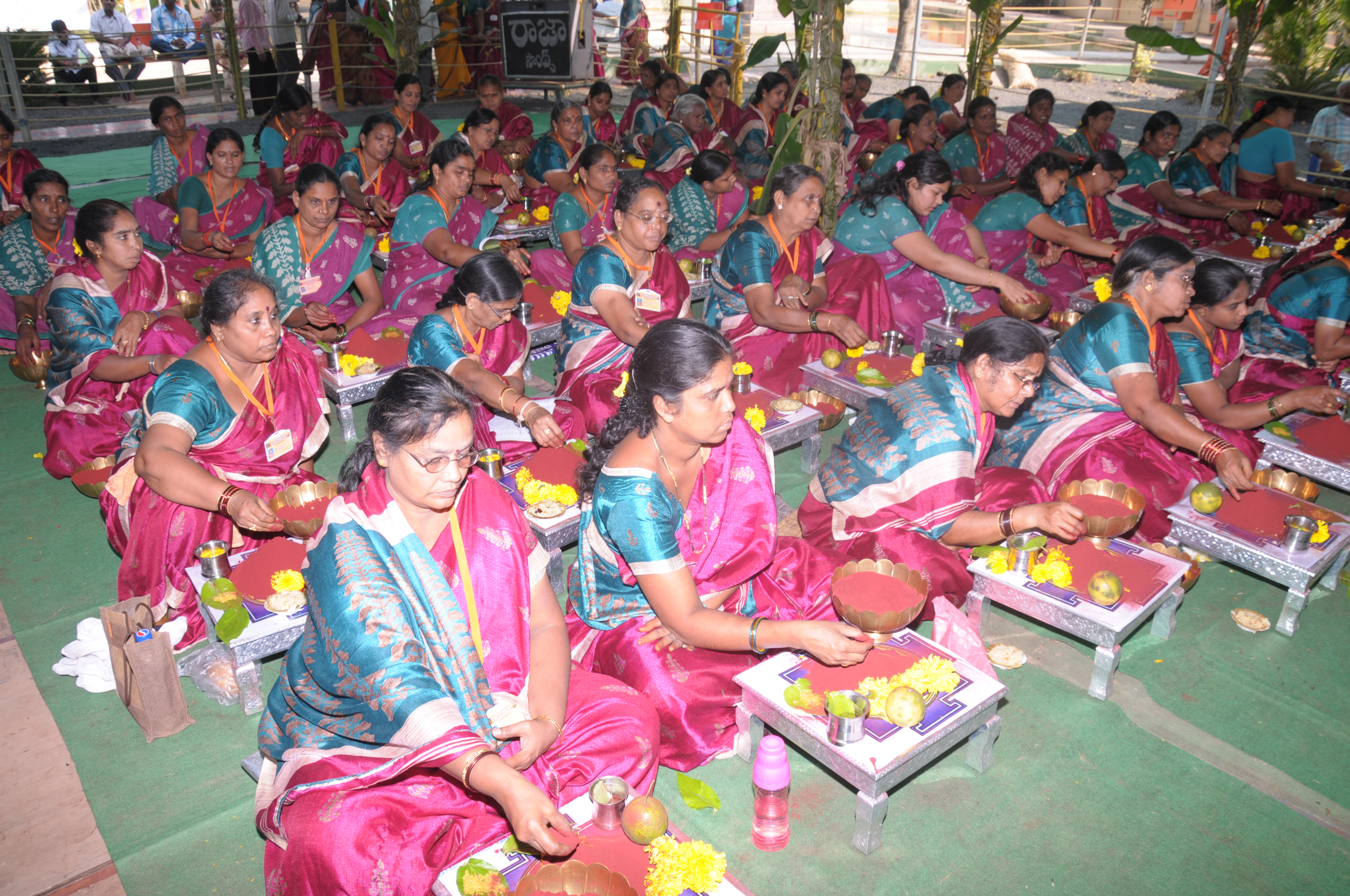 lalita sahasranama samuhika parayana ata horatram